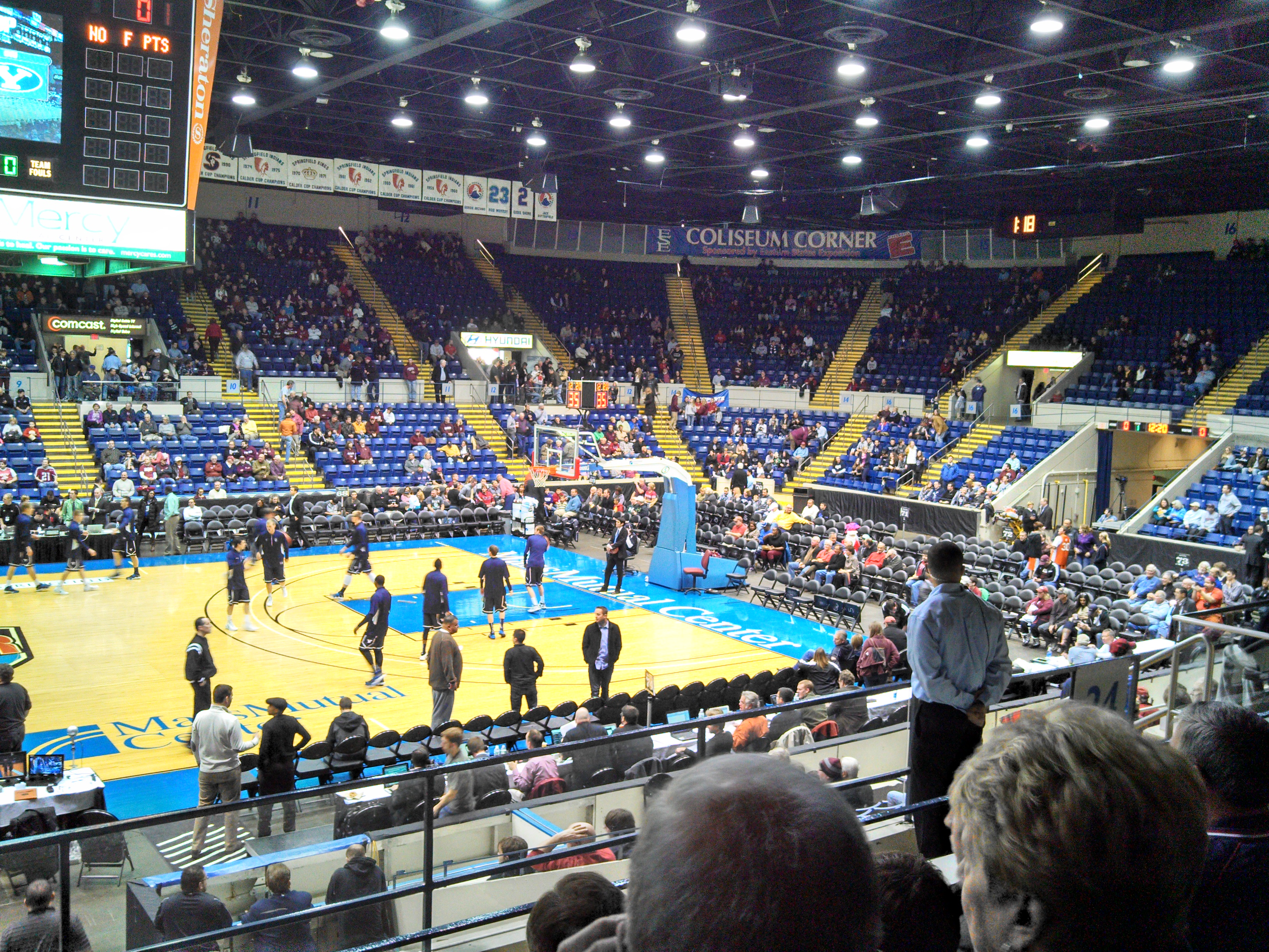 The MassMutual Center arena and convention center located in downtown Springfield, Massachusetts, USA.